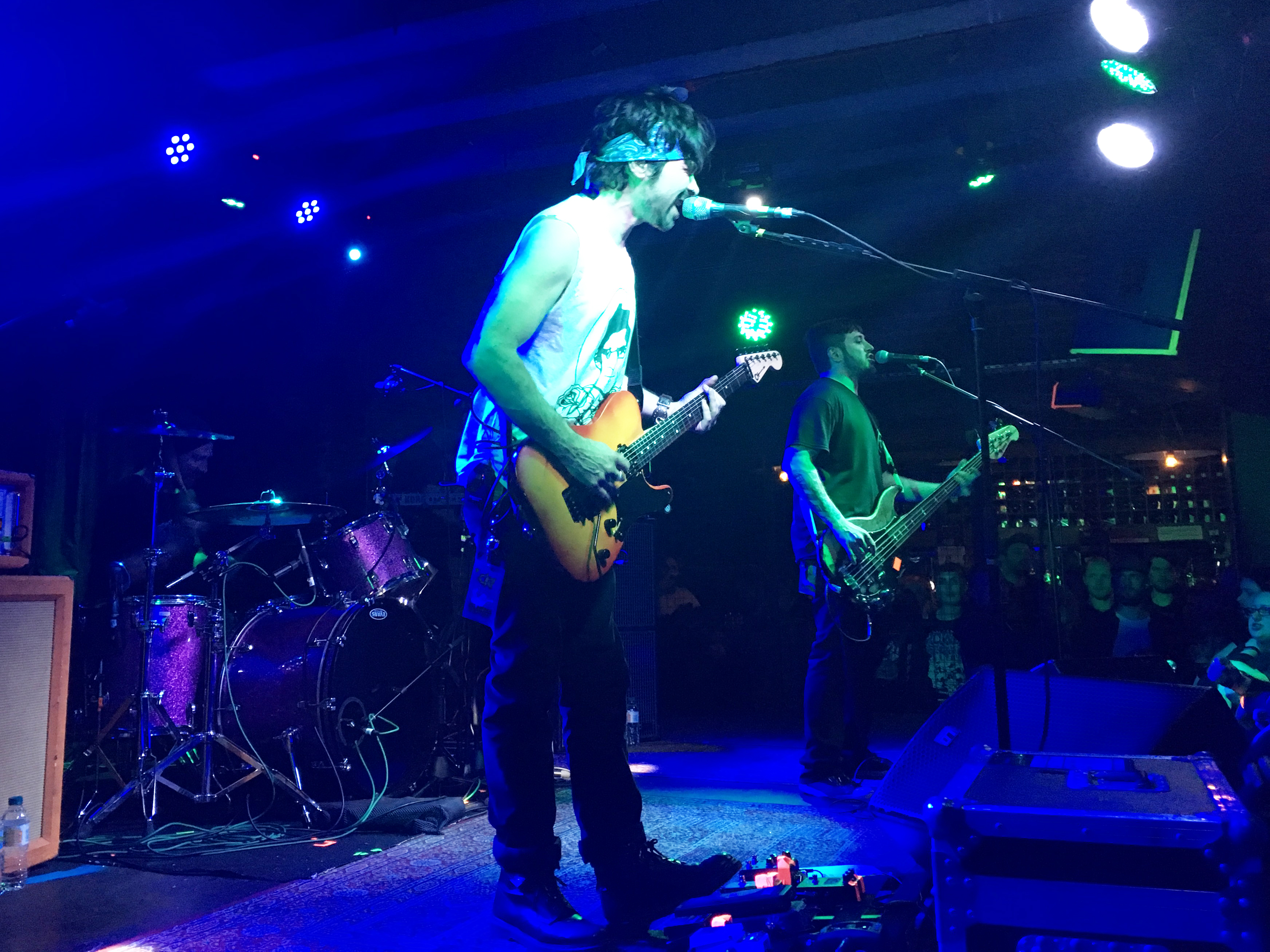 CKY performing in Manchester, England on May 16, 2017.